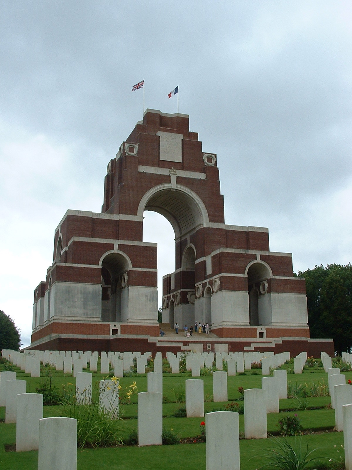 A monument, designed by Lutyens, dedicated to the 70,000+ British and Commonwealth soldiers killed at the Somme whose bodies were never found or identified. The tall white bands at the bottom of the monument are covered in the names of those soldiers.